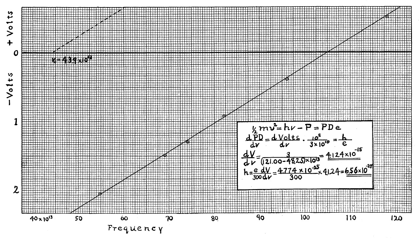 This the graph of photoelectron's maximum kinetic energy Vs incident light frequency obtained by Robert Millikan in his famous paper 'A Direct Photoelectric Determination of Planck's "h".'